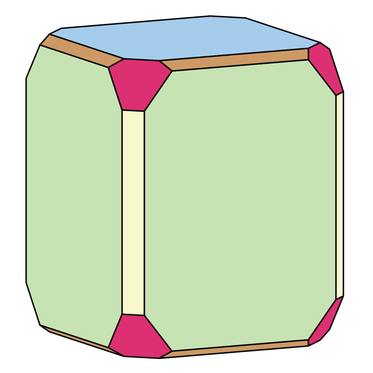 Drawing of a isometric apophyllite crystal; reference: P. Ramdohr & H. Strunz (1978), Klockmann's Lehrbuch der Mineralogie, page 740